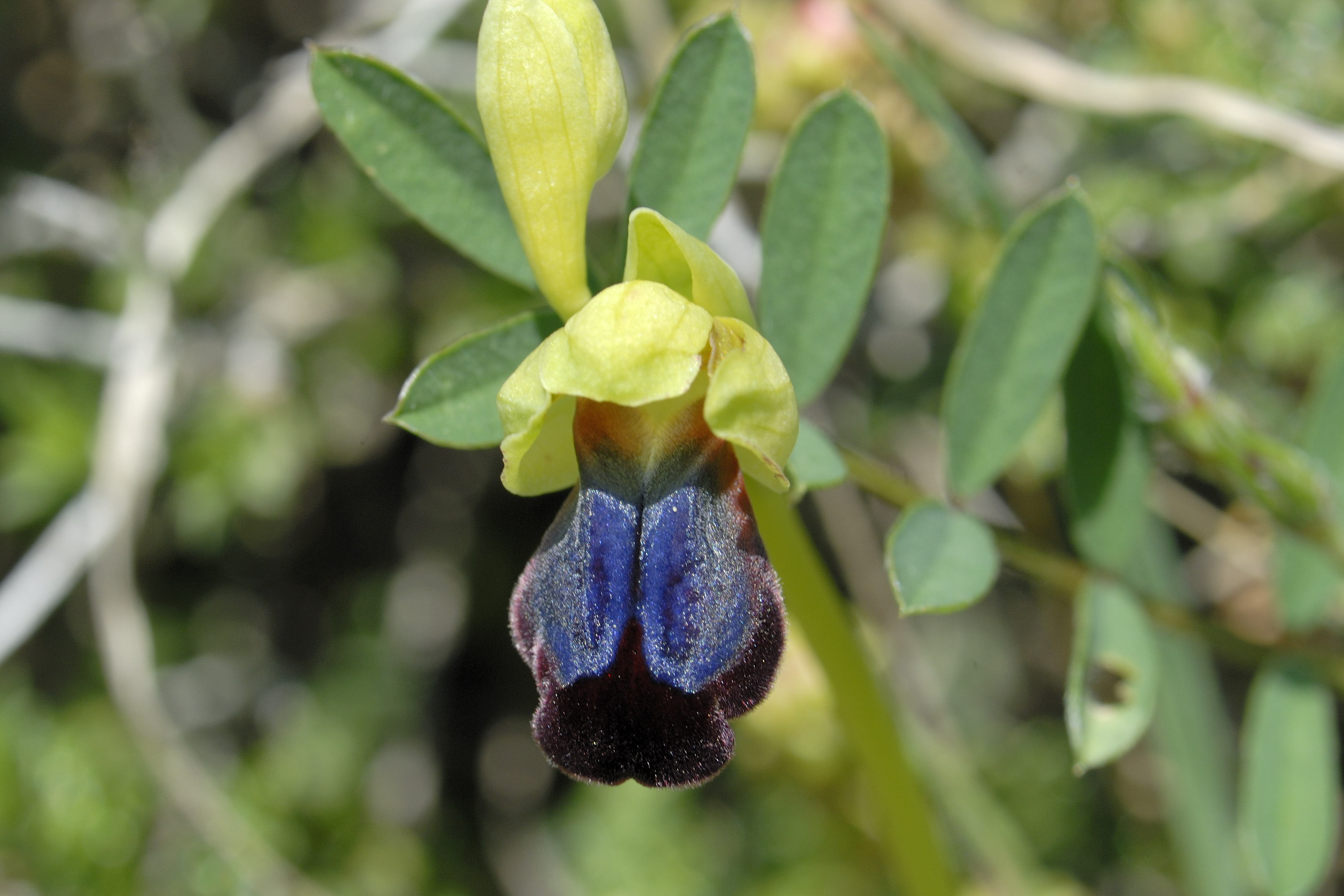 Ophrys iricolor Gerakari/Crete